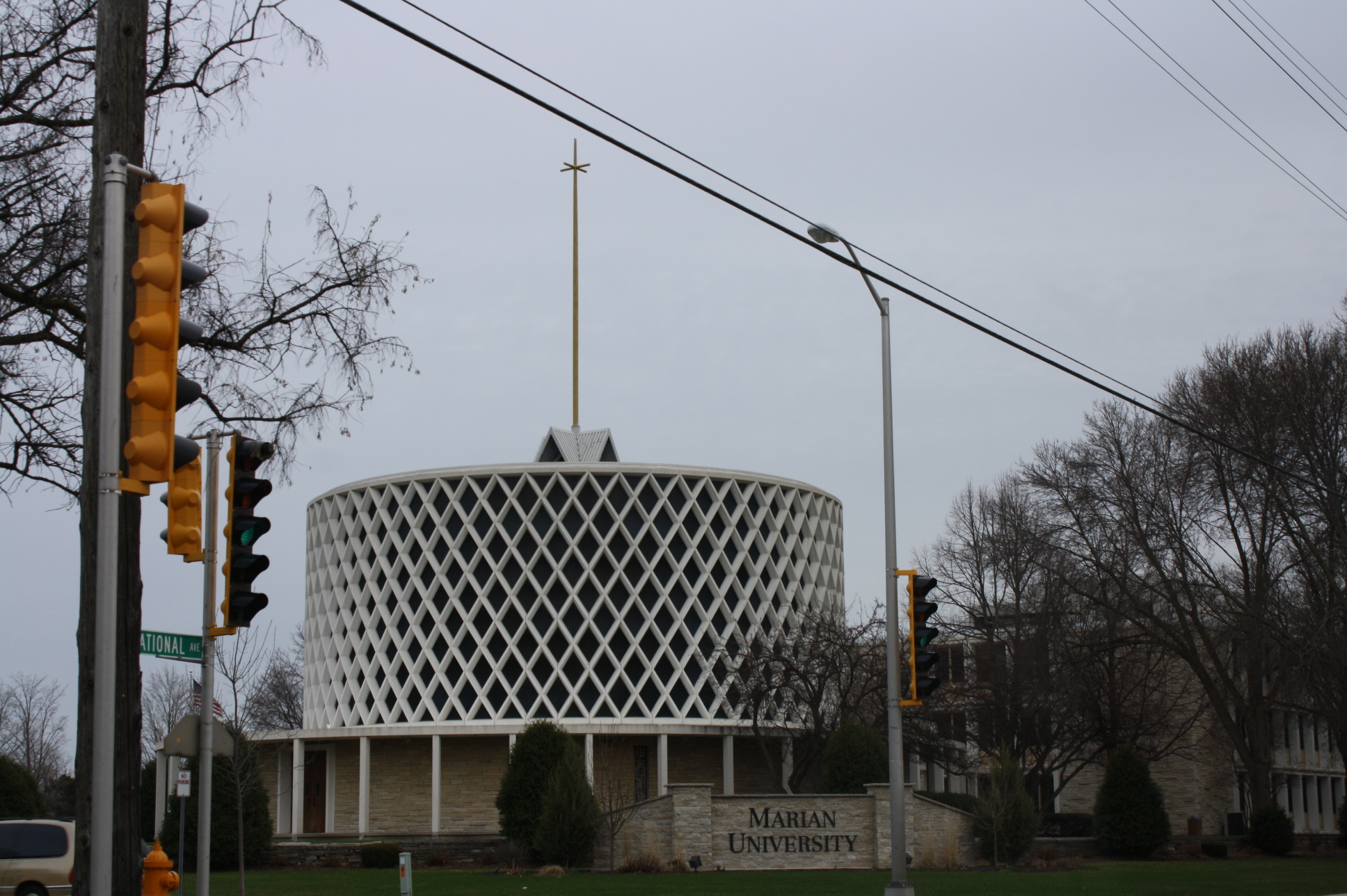 The Dorcas Chapel at Marian University in Fond du Lac, Wisconsin.